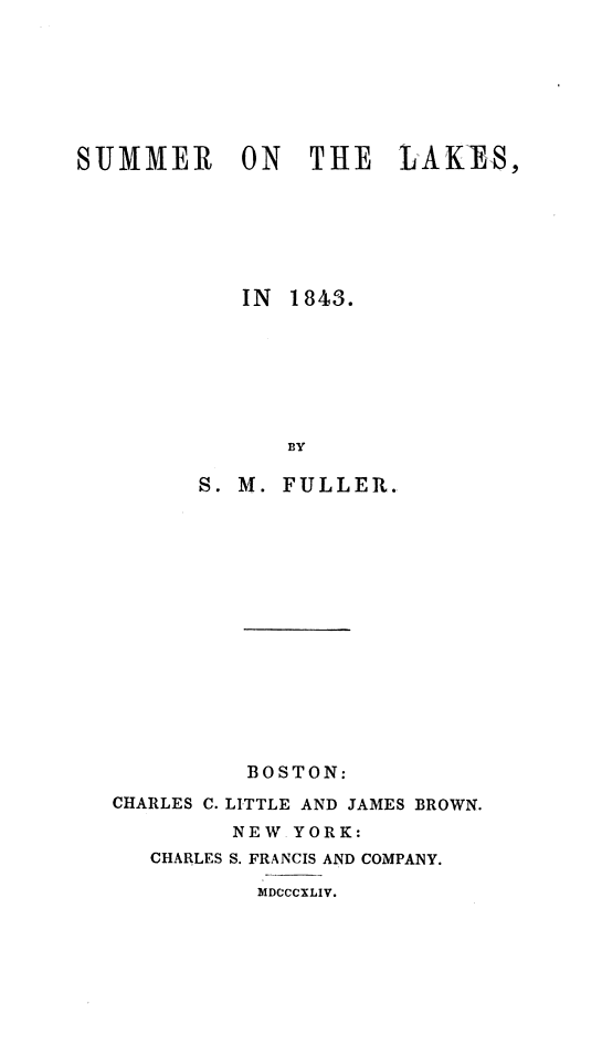 Title page for Summer on the Lakes in 1843 (1844), a book by American writer Margaret Fuller (1810-1850).